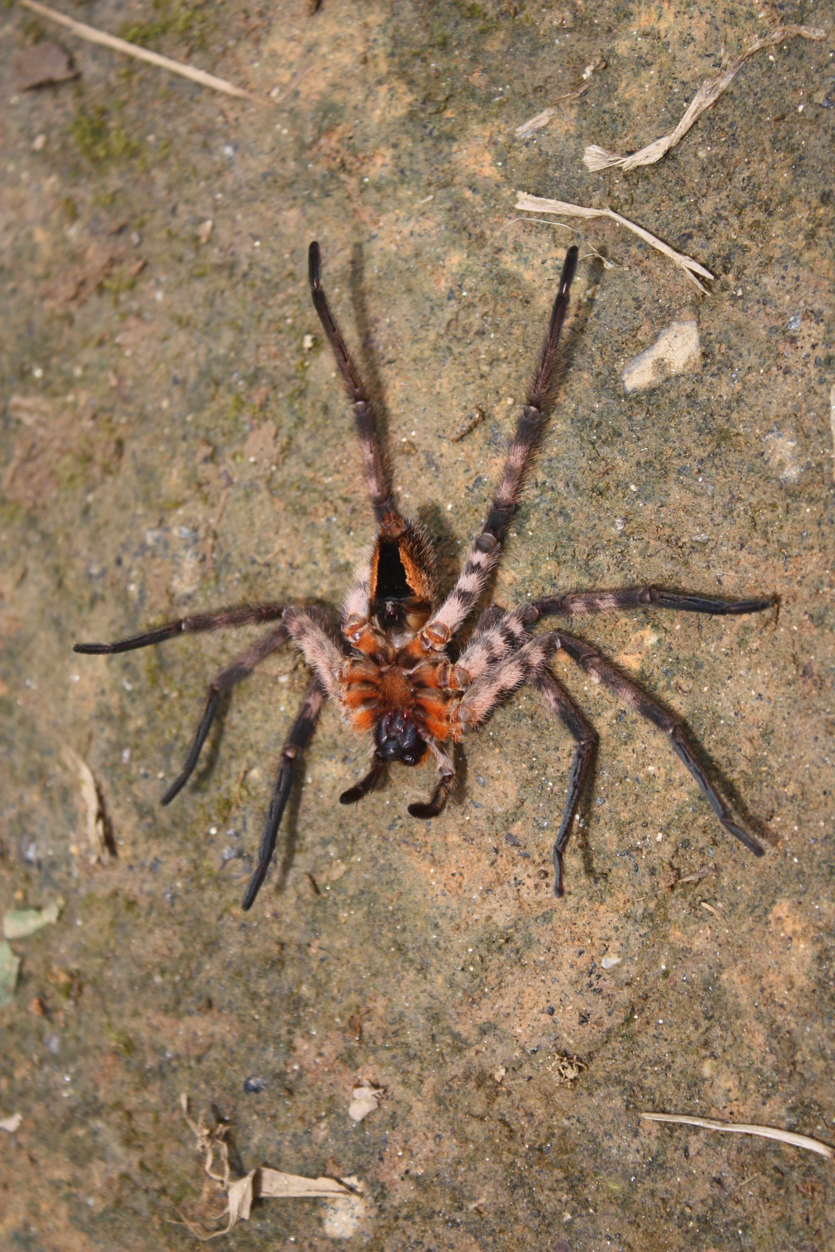 Cupiennius salei, Adult Female in ventral view. In lower elevation of Parque Nacional Cusuco, Dept. Cortés, Honduras.